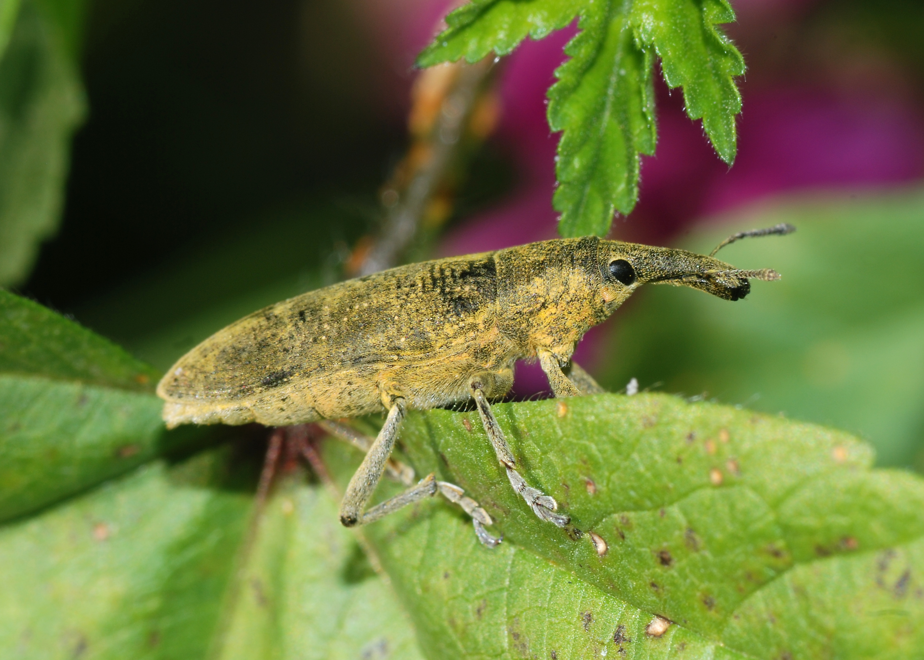 A weevil of the Curculionidae family.